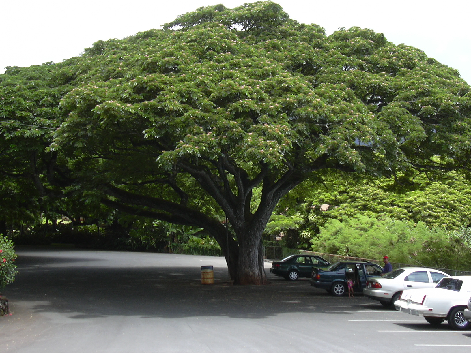 Samanea saman (habit). Location: Oahu, Heeia Park